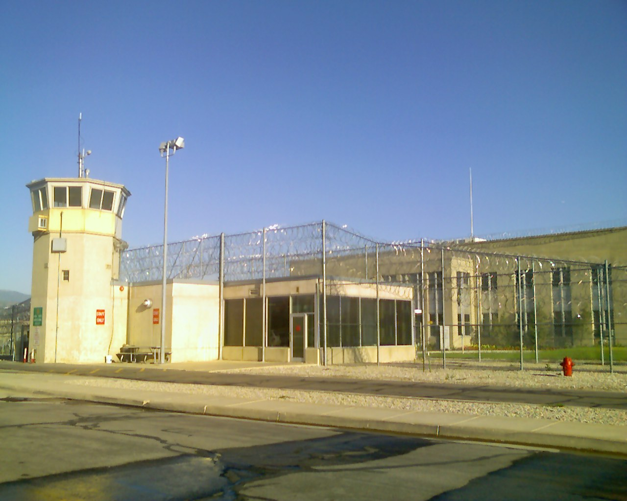 Visitors entrance to the Utah State Prison in Draper, Utah, United States.